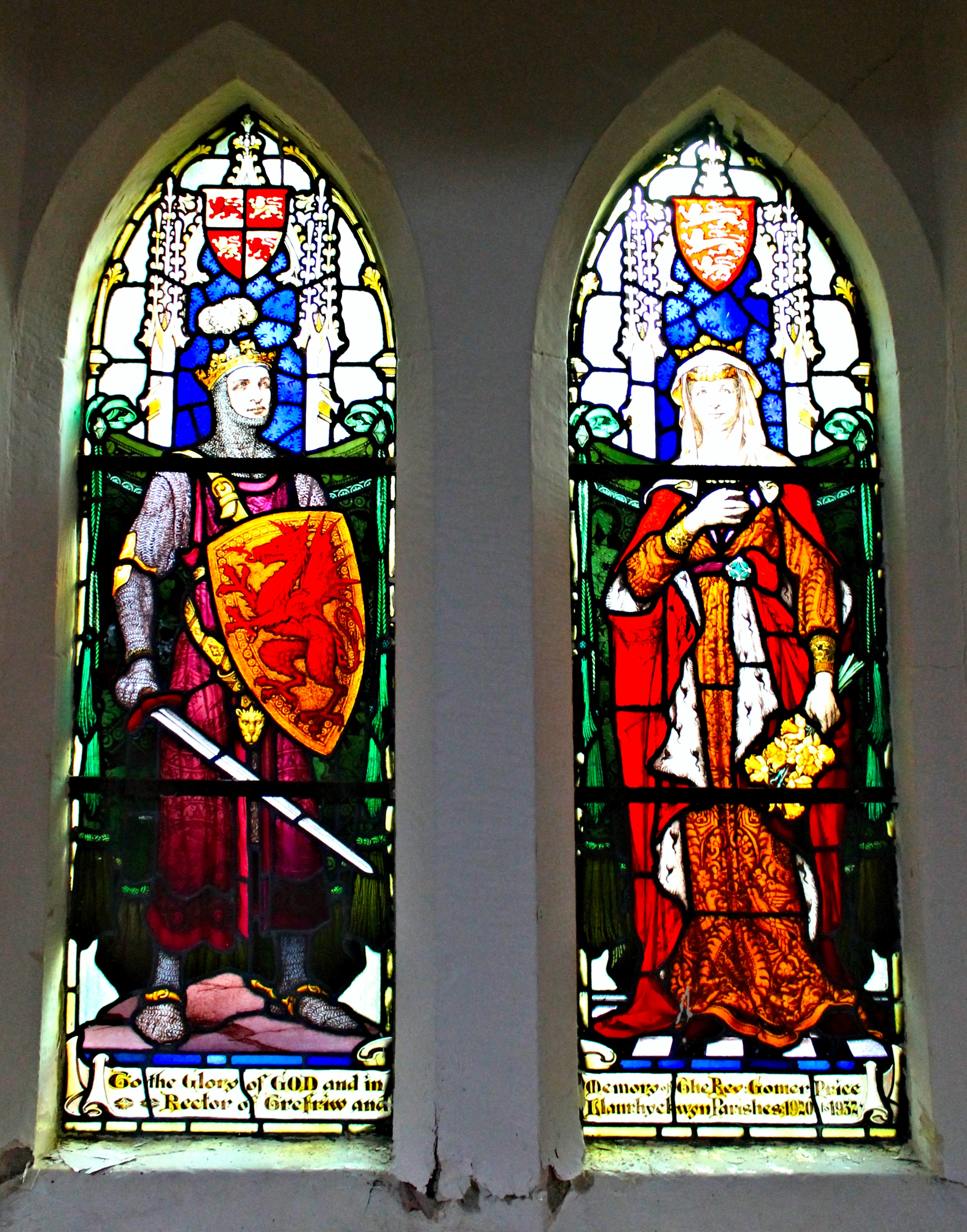 St Mary's church, Trefriw, Conwy, Wales. Grade: II* Date Listed: 13 October 1966. Cadw Building ID: 3219